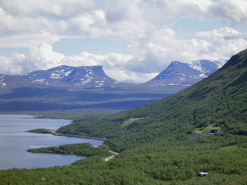 View from Björkliden over the national park until Lapporten (the Gate to Lappland), a distinctive U-shaped valley